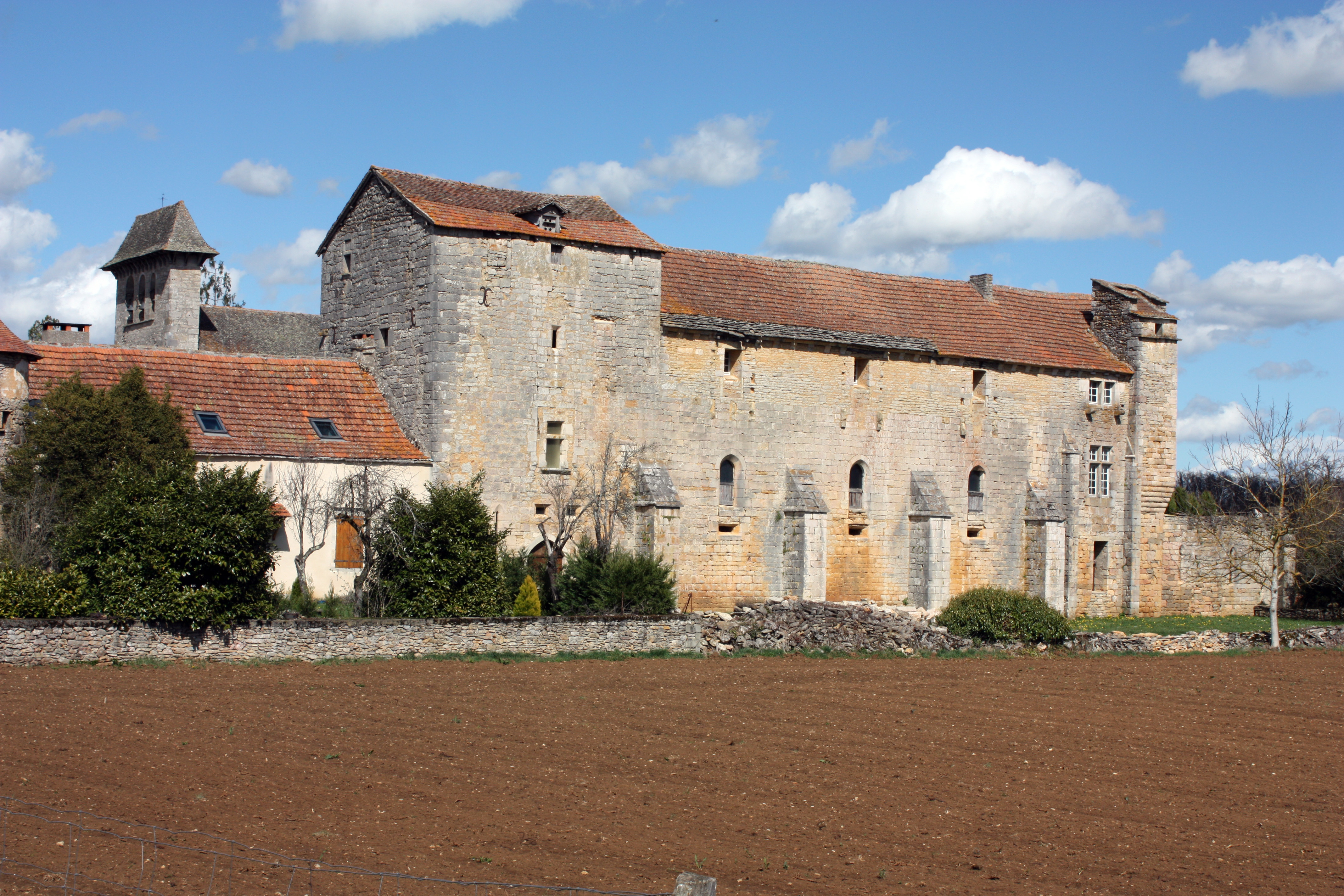 Priory of Laramière.